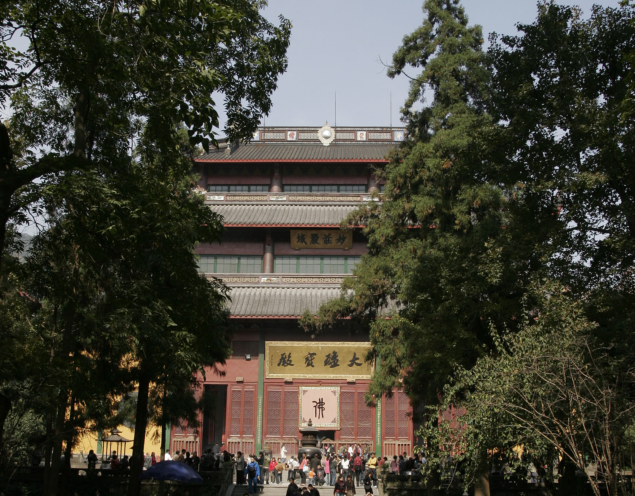 Grand Hall of the Great Sage of the Lingyin Temple close to Hangzhou, Zhejiang Province, China.